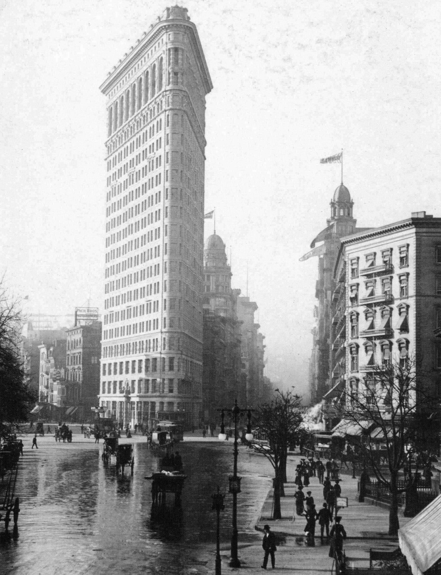 The Flatiron Building (Fuller Building) in Manhattan, New York City c.1903